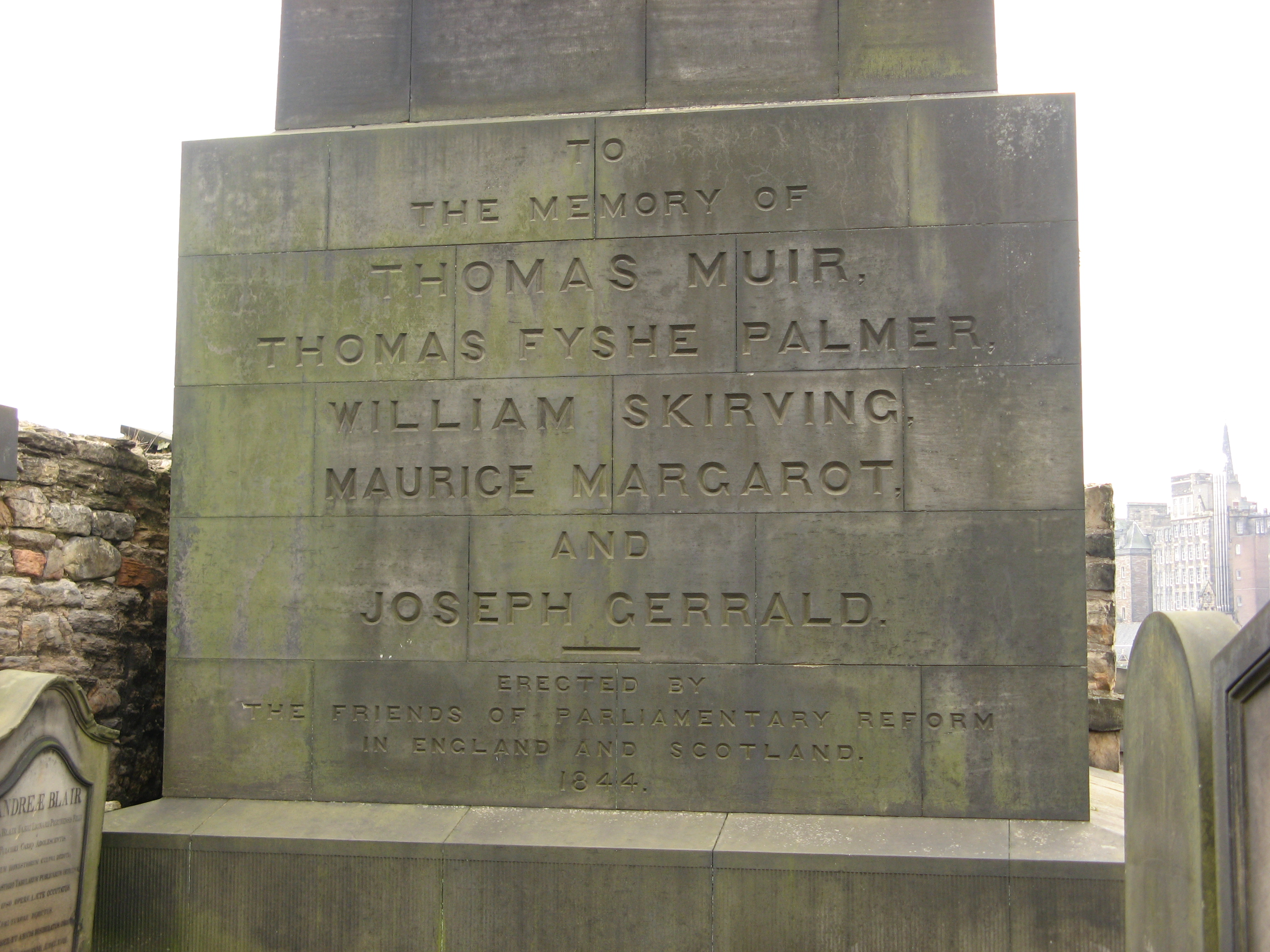 Inscription on the north side of the Political Martyrs' Monument, Old Calton Cemetery, Edinburgh.